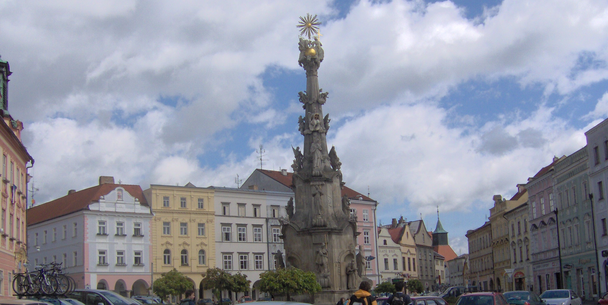 Square in Jindřichův Hradec, South Bohemian Region, Czech republic